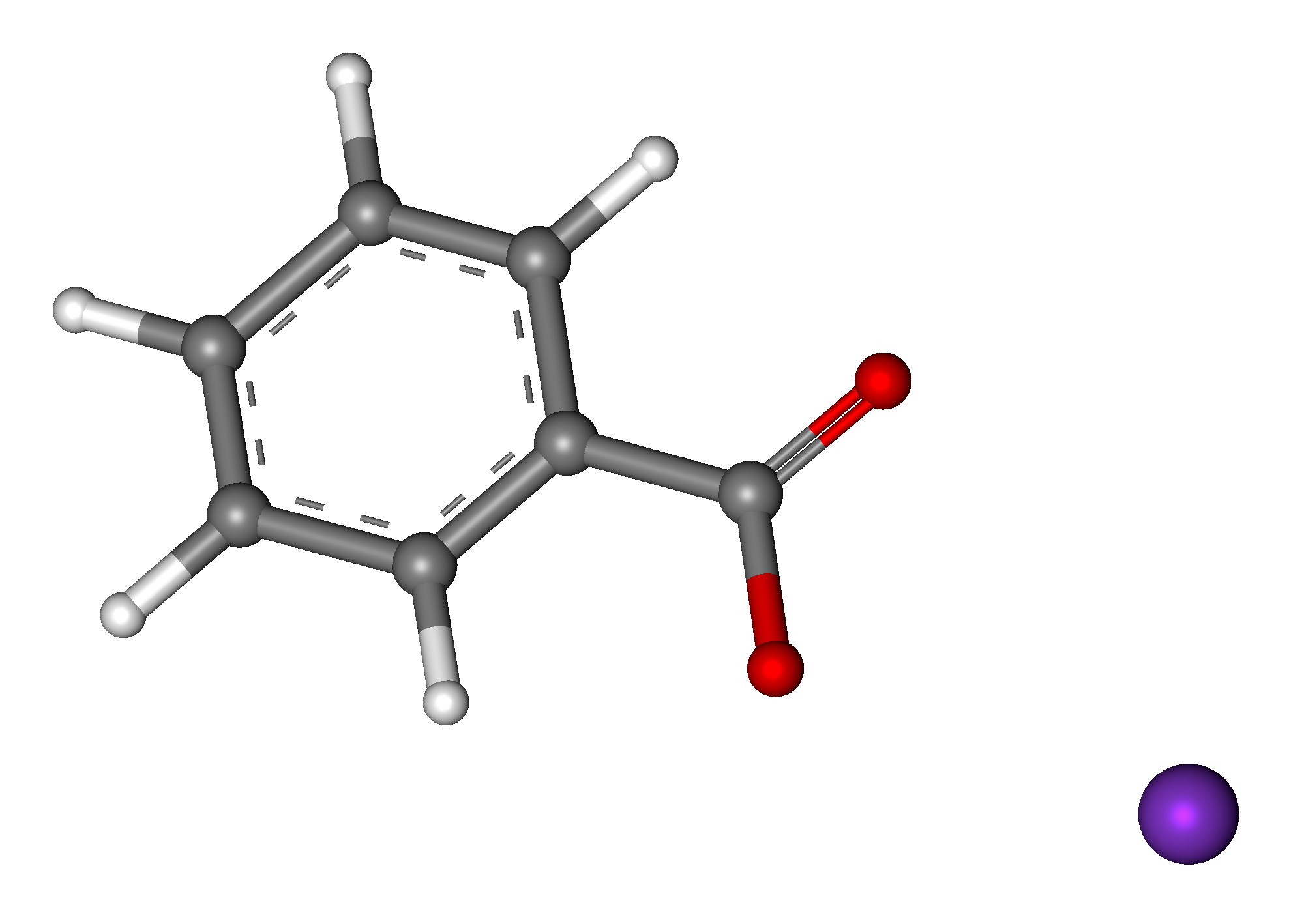 Ball-and-stick model of Potassium benzoate molecule. The structure is taken from ChemSpider. ID 10921